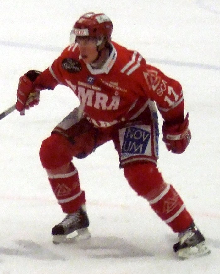 Ice hockey player Johan Andersson of Timrå IK in E.ON Arena, Timrå, Sweden